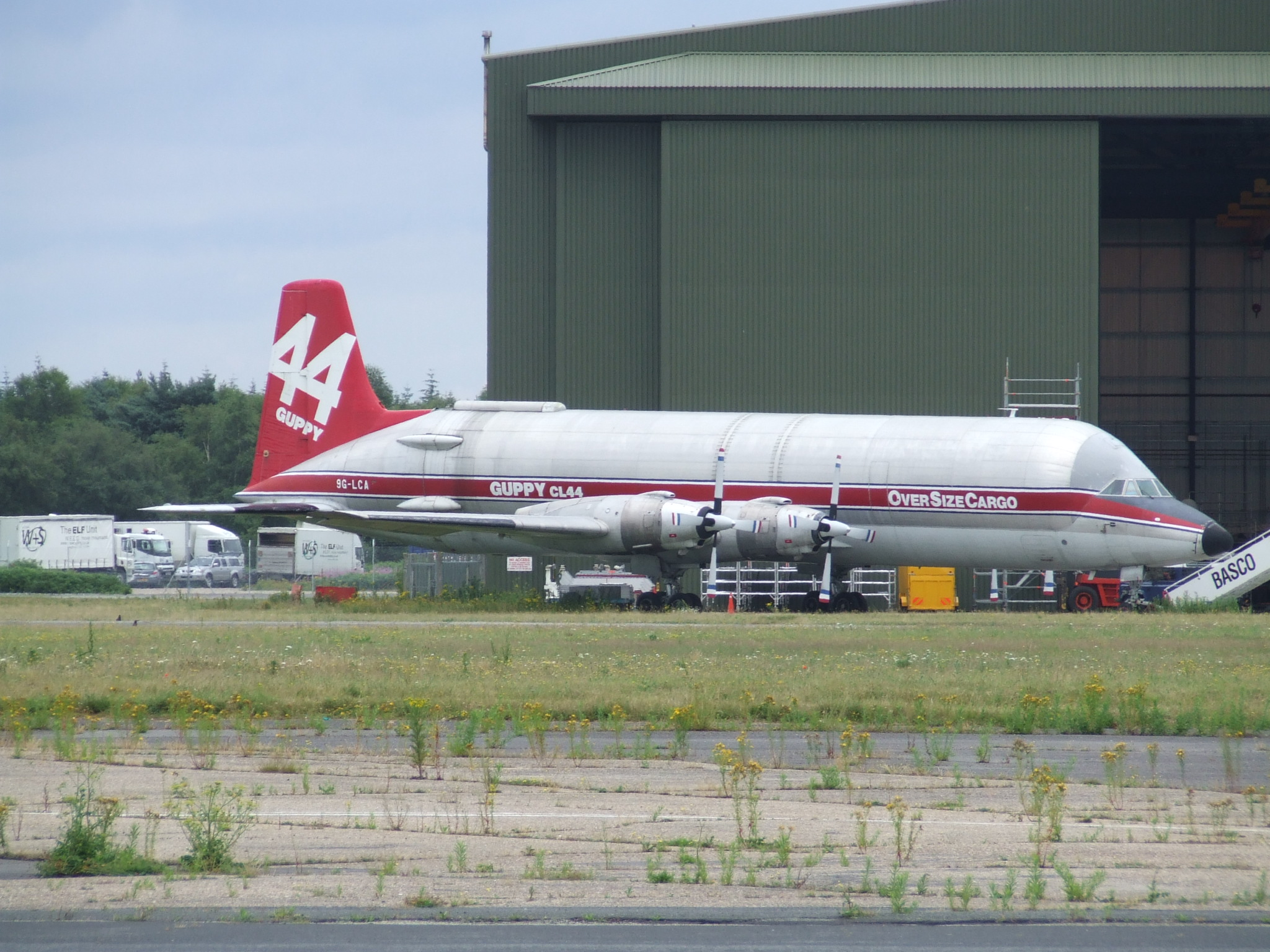 The unique Conroy Skymonster is a highly-modified Canadair CL-44, originally developed to transport Rolls-Royce RB-211 engines to be fitted to Lockheed Tristars. This picture was taken at Bournemouth Airport on July 7 2006 by YSSYguy and was uploaded for use in the article about the Conroy Skymonster.